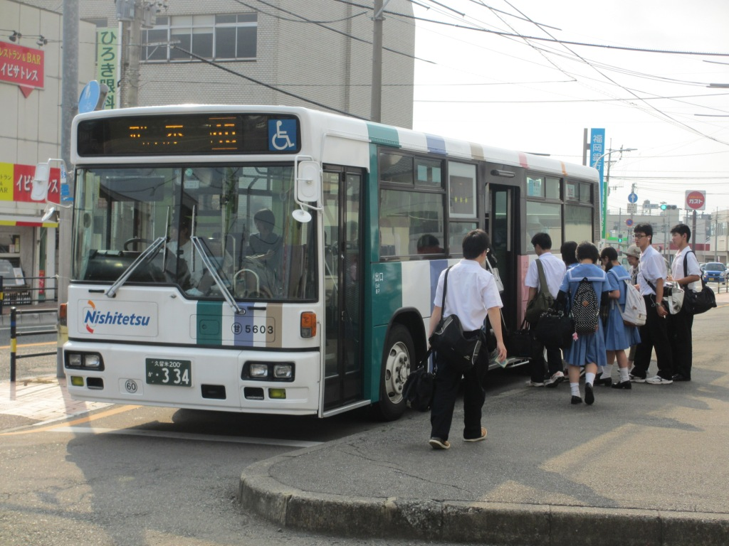 Nishitetsu Amagi Bus Center in Asakura City, Fukuoka Prefecture, Japan